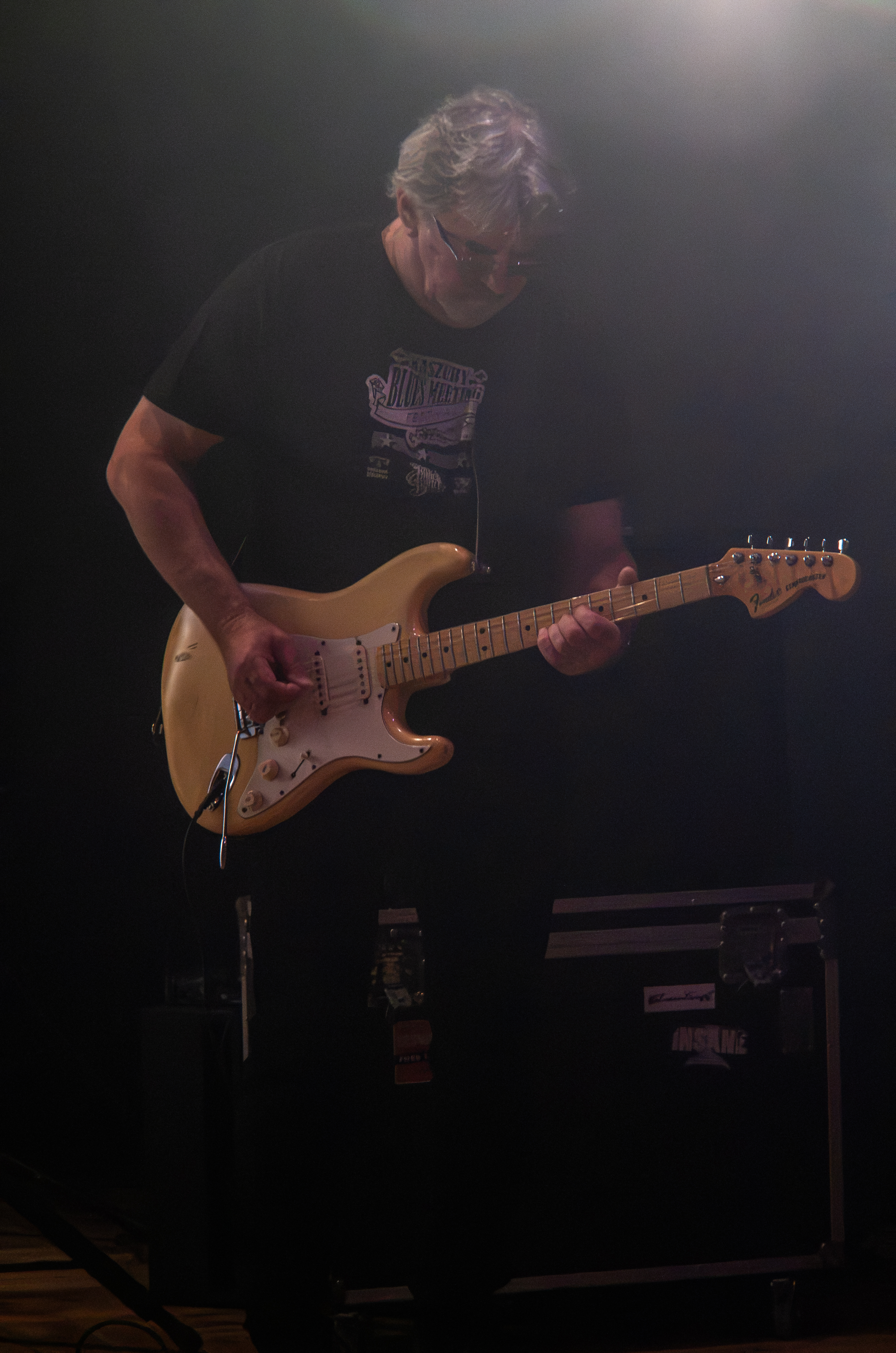 Leszek Winder playing electric Fender guitar at concert with Krzysztof Ścierański (bass guitar) and his son Marcin Ścierański (perc.) and Leszek Winder in Municipal Museum in Siemianowice Śląskie; photo taken with permission of Leszek Winder during Krystian Hadasz Improvisation Art Festival in Siemianowice Śląskie (Polish: Festiwal Sztuki Improwizacji im. Krystiana Hadasza w Siemianowicach). [Taken with Chinonflex Auto Reflex 1:2.8 f=135 mm]